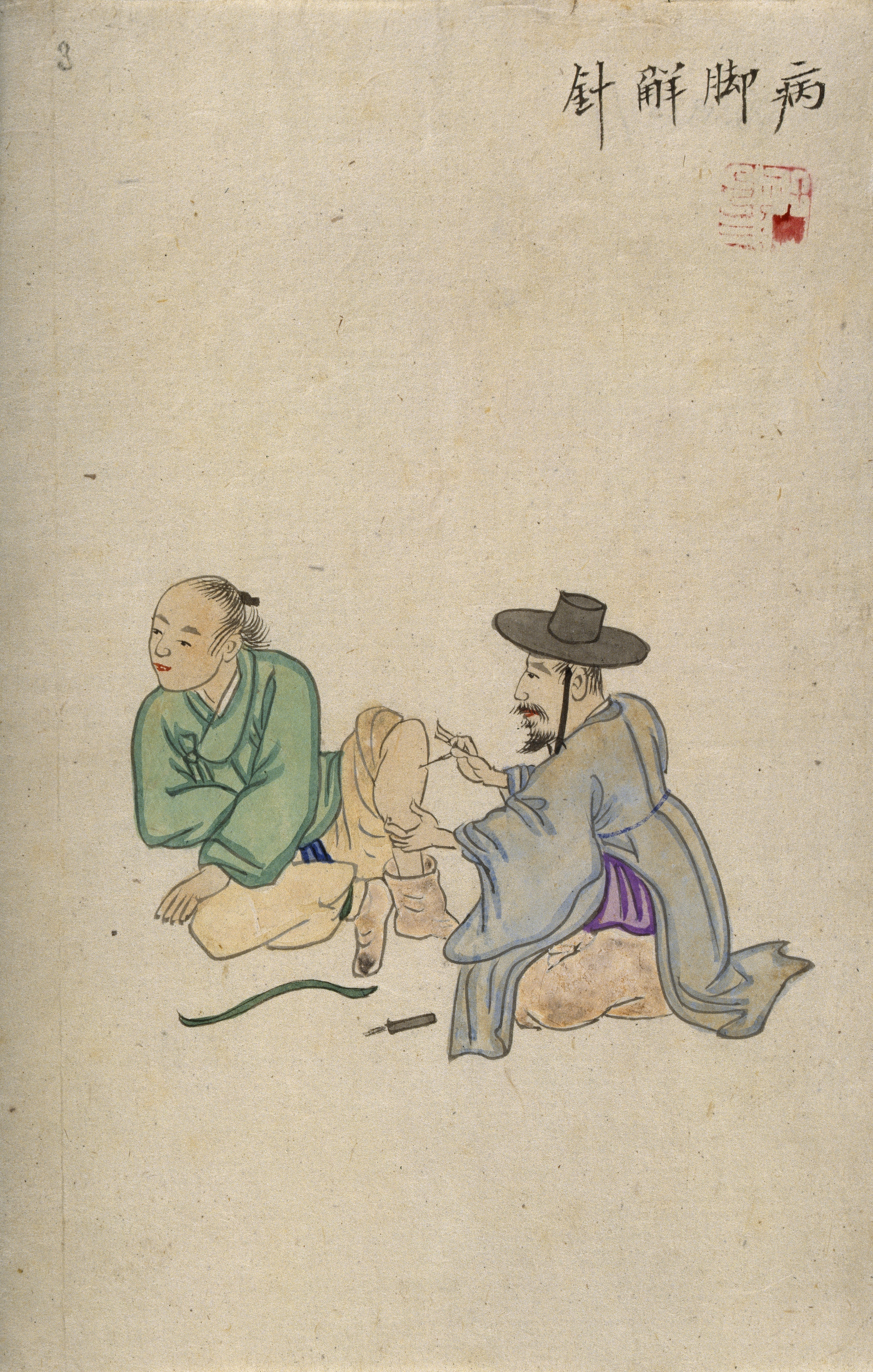 A Korean acupuncturist inserting a needle into the leg of a male patient, with a ribbon on the ground beside them. Iconographic Collections Keywords: Acupuncture; Korea